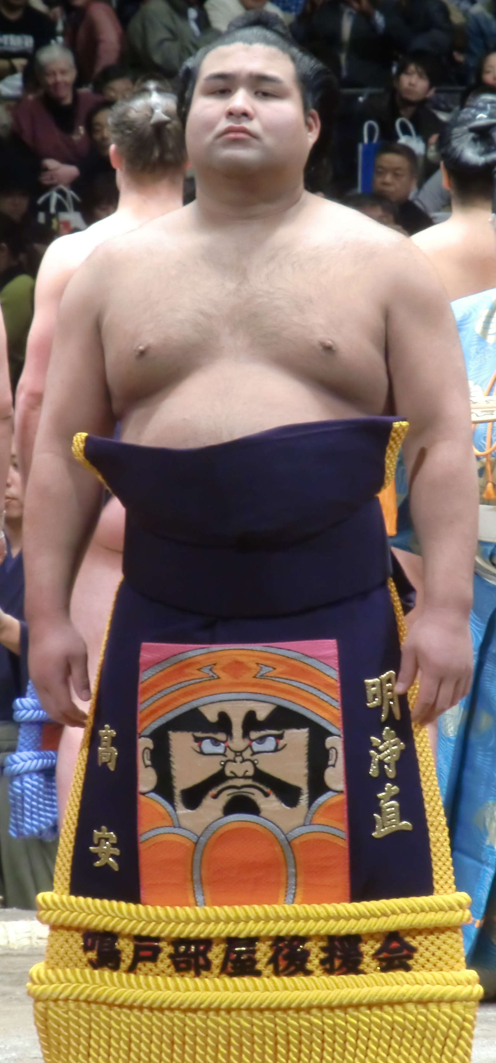 taken at 2012 Jan tournament